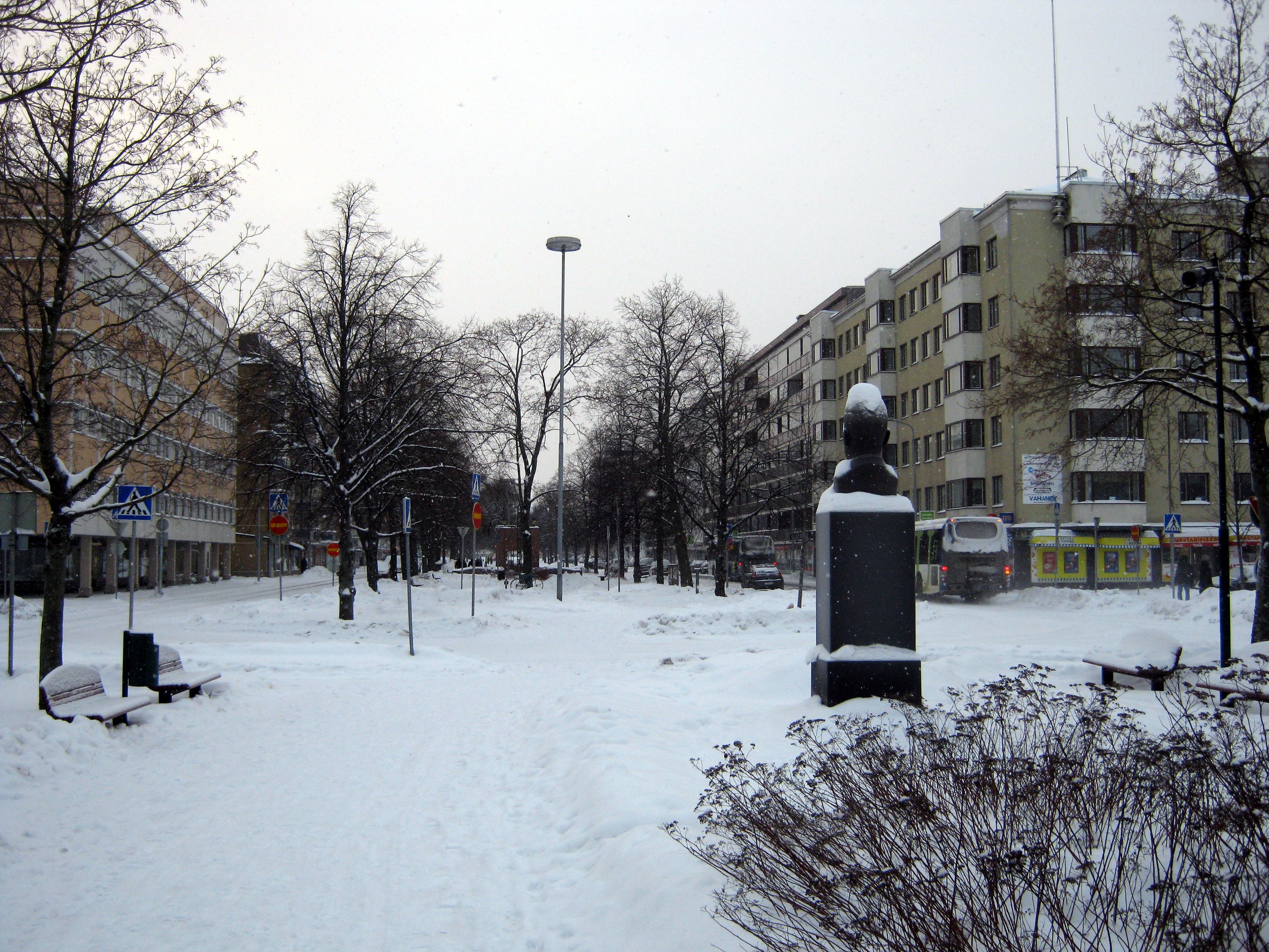 Eteläpuisto -street, Pori, Finland.